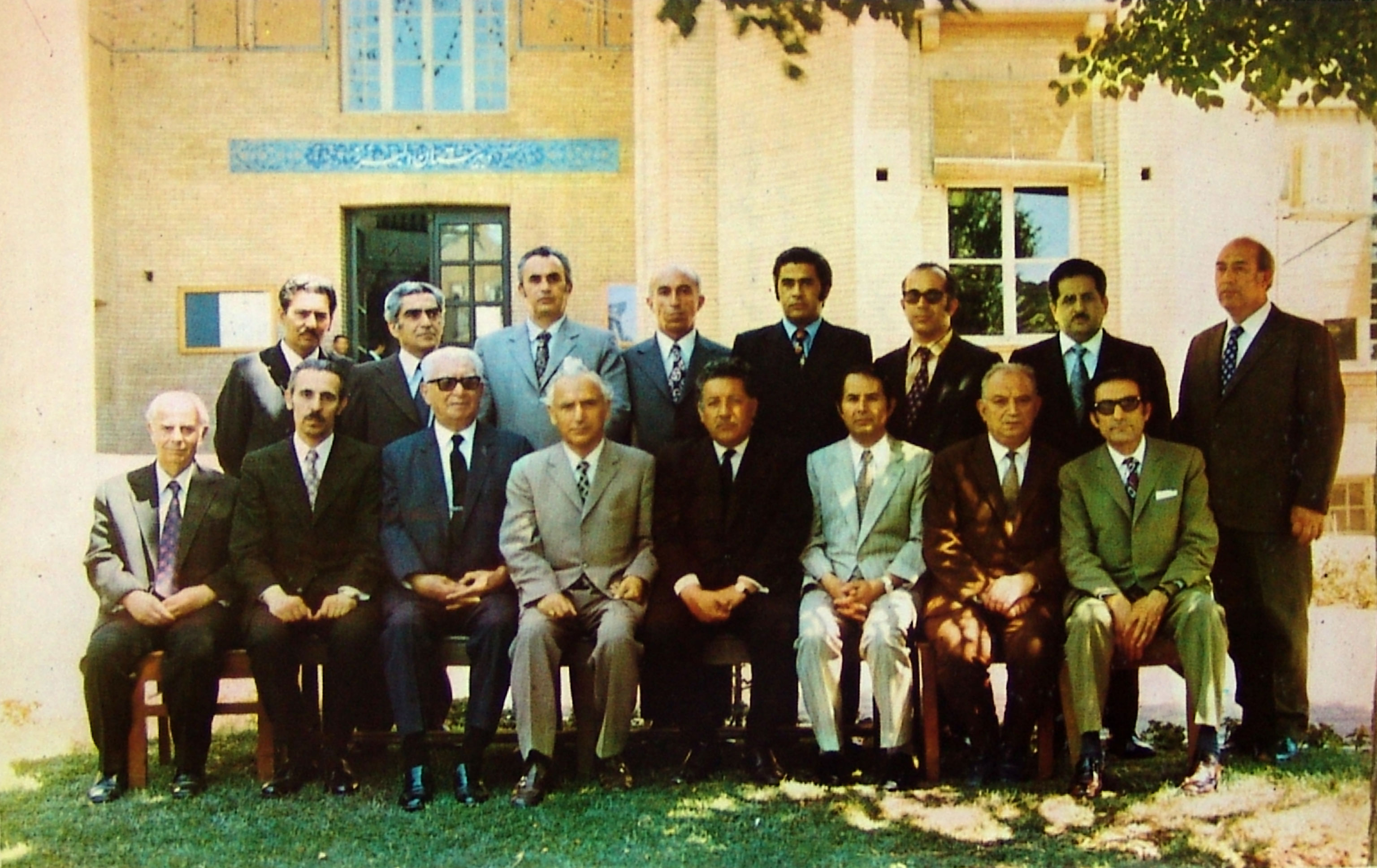 Alborz High School, educational Staff.